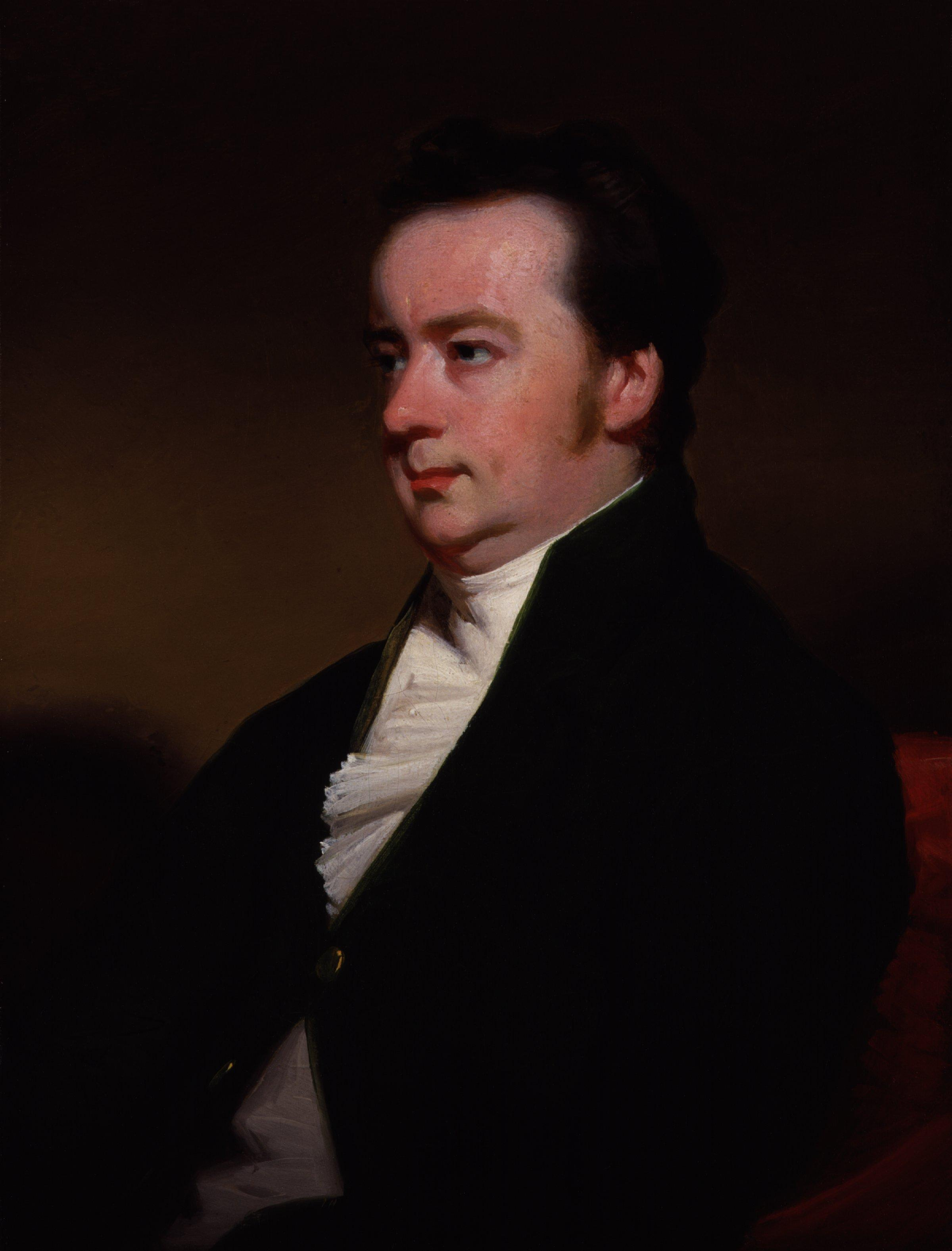 Charles Theophilus Metcalfe, 1st Baron Metcalfe, by George Chinnery (died 1852). All images in this batch have been confirmed as author died before 1939 according to the official death date listed by the NPG.